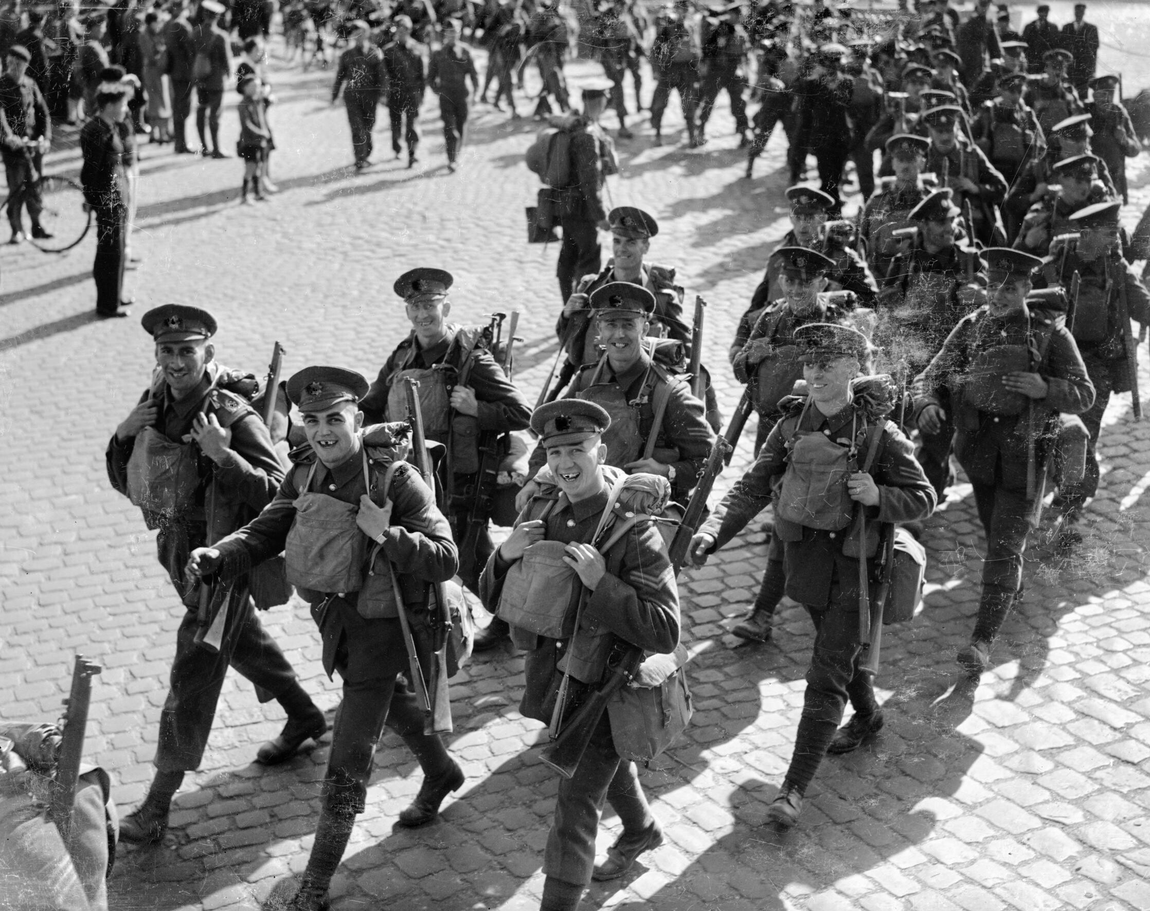 The British Expeditionary Force (bef) in France 1939-1940 The BEF arrives in France, September - October 1939: Men of the 2nd Battalion, Coldstream Guards marching through Cherbourg.